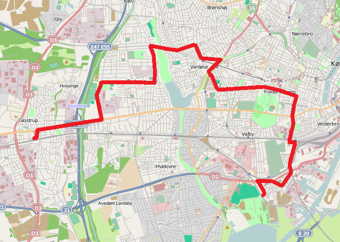 Map of the Copenhagen bus line 9A between Glostrup Station and Valbyparken as of 16 May 2020. This map may be incomplete, and may contain errors. Don't rely solely on it for navigation.